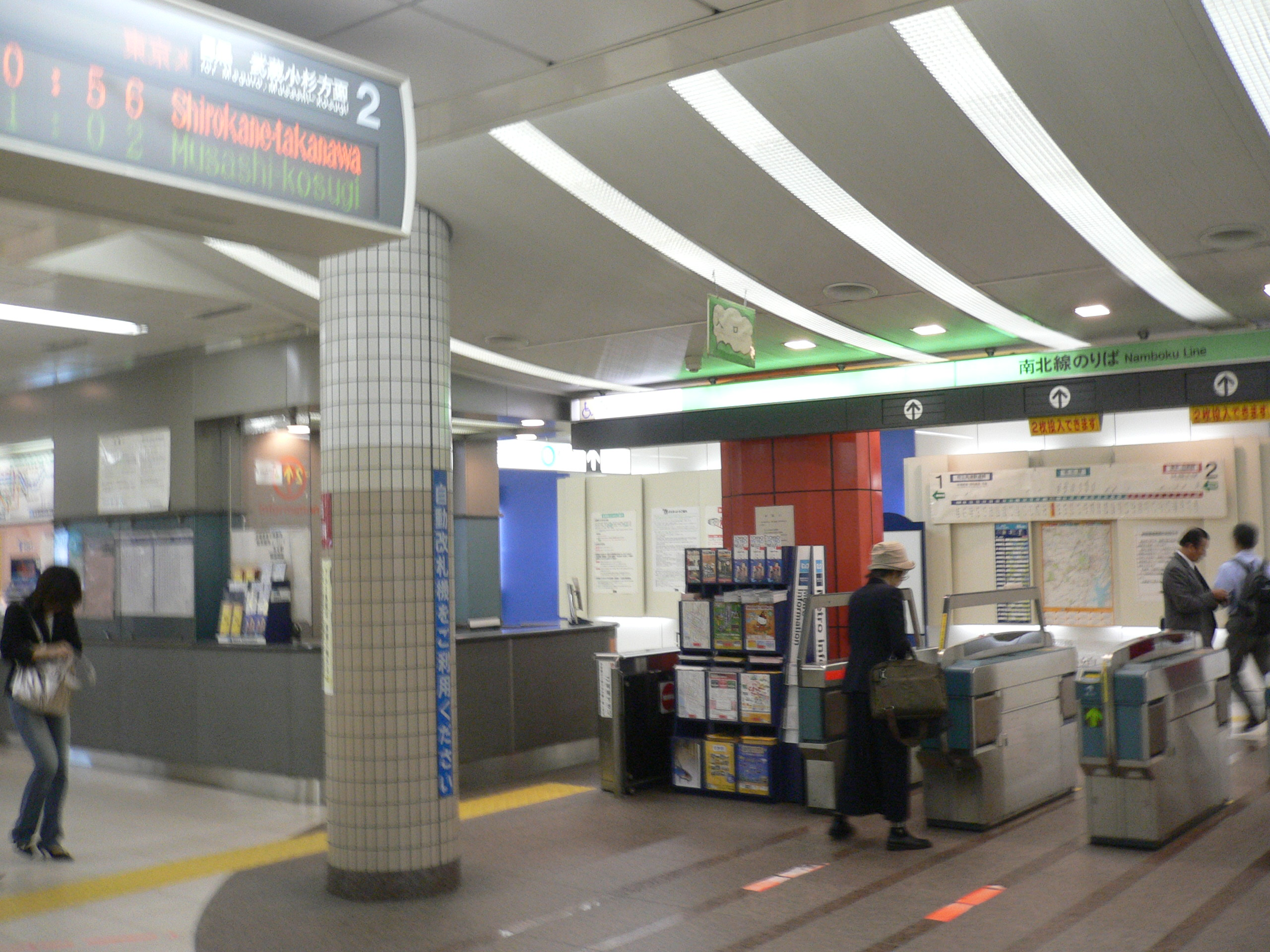 Todaimae Staion (東大前駅), Bunkyo W, Tokyo M.